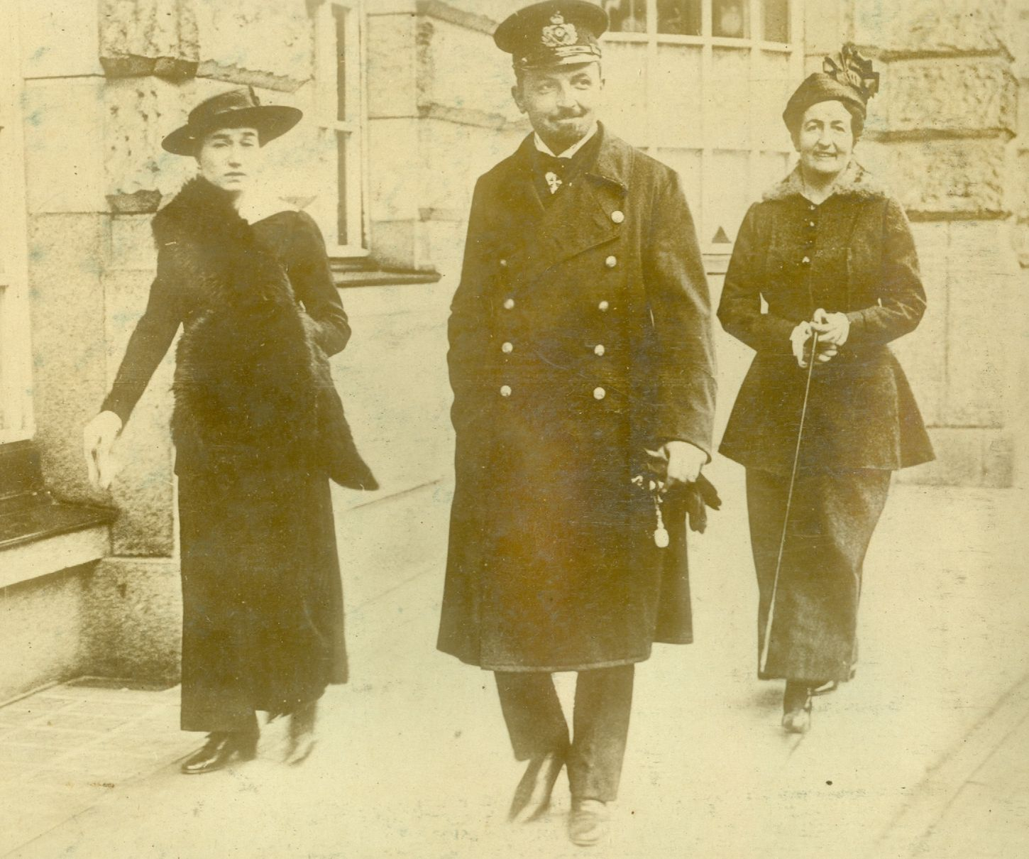 Nikolaus Graf zu Dohna-Schlodien